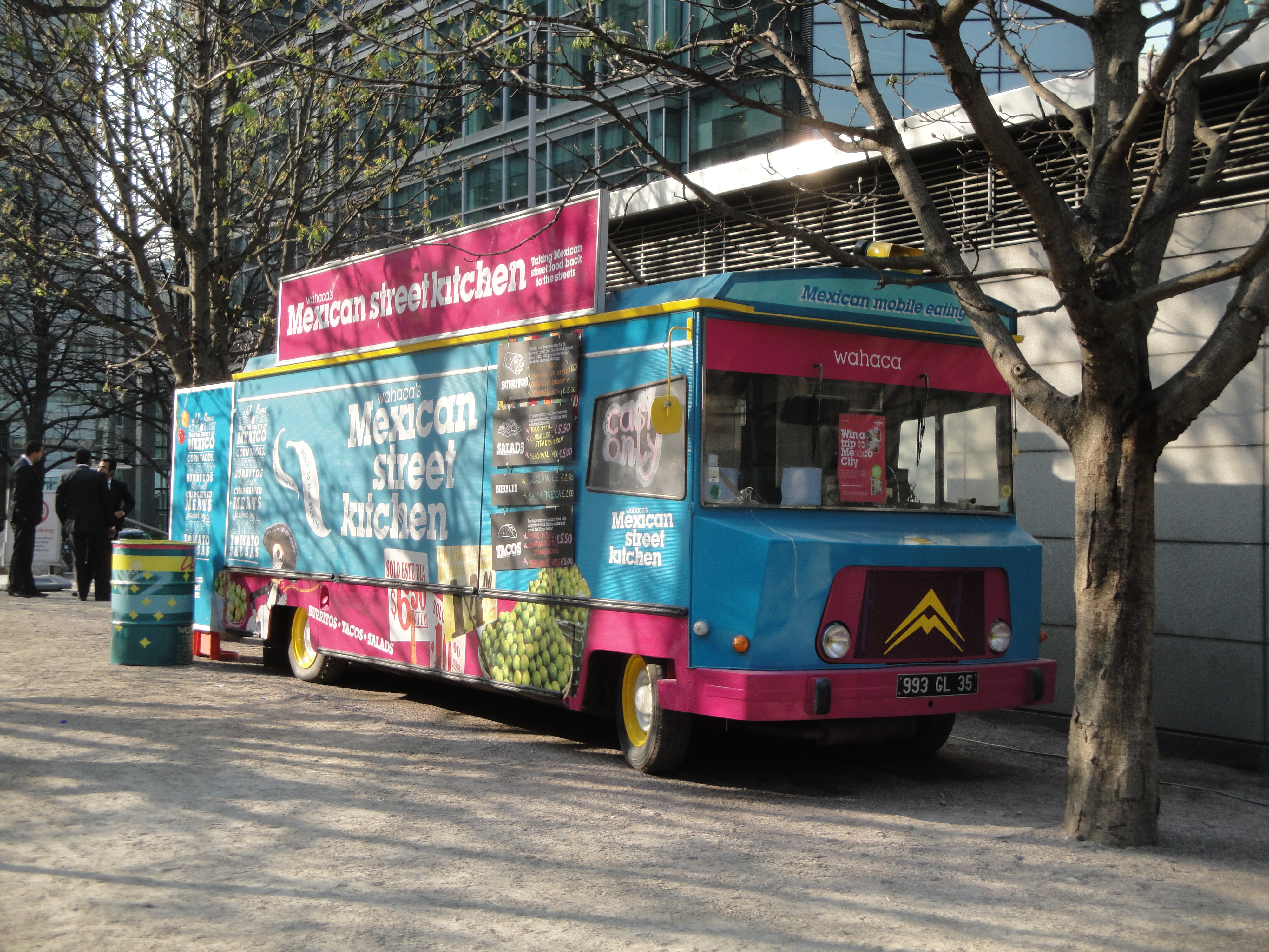 Wahaca's Mexican Street Kitchen, a food van, set up in Canary Wharf, London, seen in March 2012.